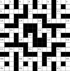 This is an image showing a Bengali crossword grid.